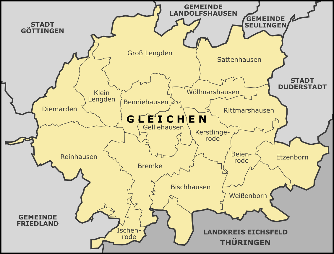 Map of villages in the municipality of Gleichen, Lower Saxony